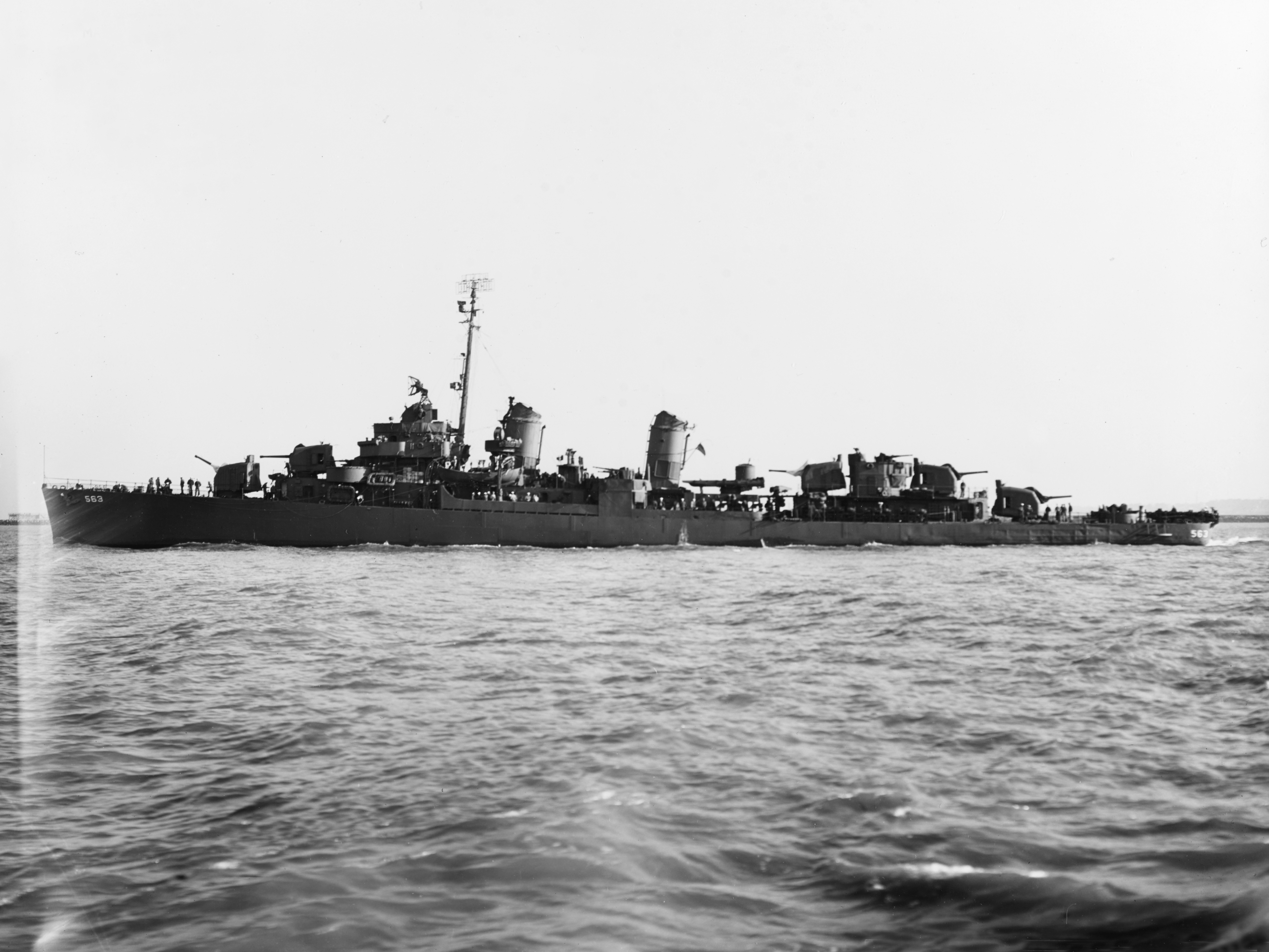 The U.S. Navy destroyer USS Ross (DD-563) underway off Mare Island Naval Shipyard, California (USA), on 27 June 1945.